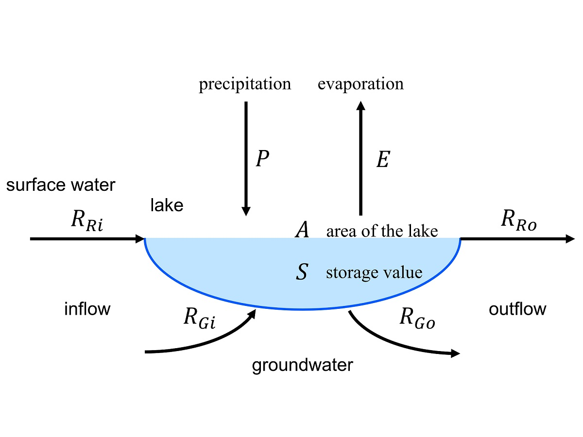 water balance in a lake; in this situation, d S d t = ( P − E ) A + ( R R i − R R o ) + ( R G i − R G o ) {\displaystyle {\frac {dS}{dt =(P-E)A+(R_{Ri}-R_{Ro})+(R_{Gi}-R_{Go})}